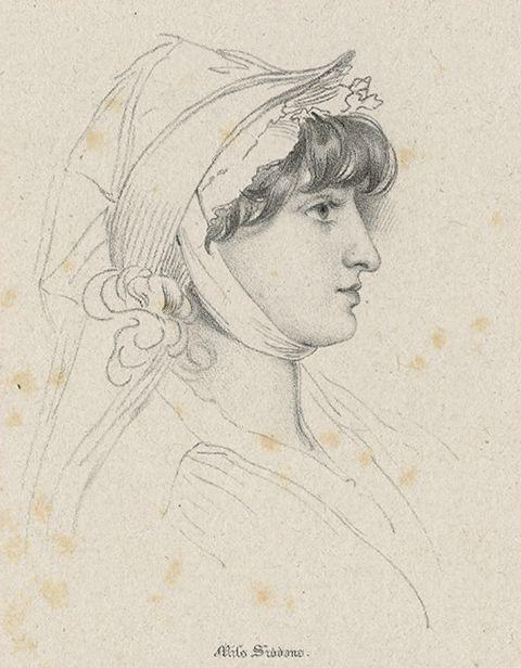 Extracted from Cecilia Combe (née Siddons); Sarah Siddons (née Kemble); Charles Kemble; Maria Siddons, by J. Dickinson (floruit 1836), given to the National Portrait Gallery, London in 1956.